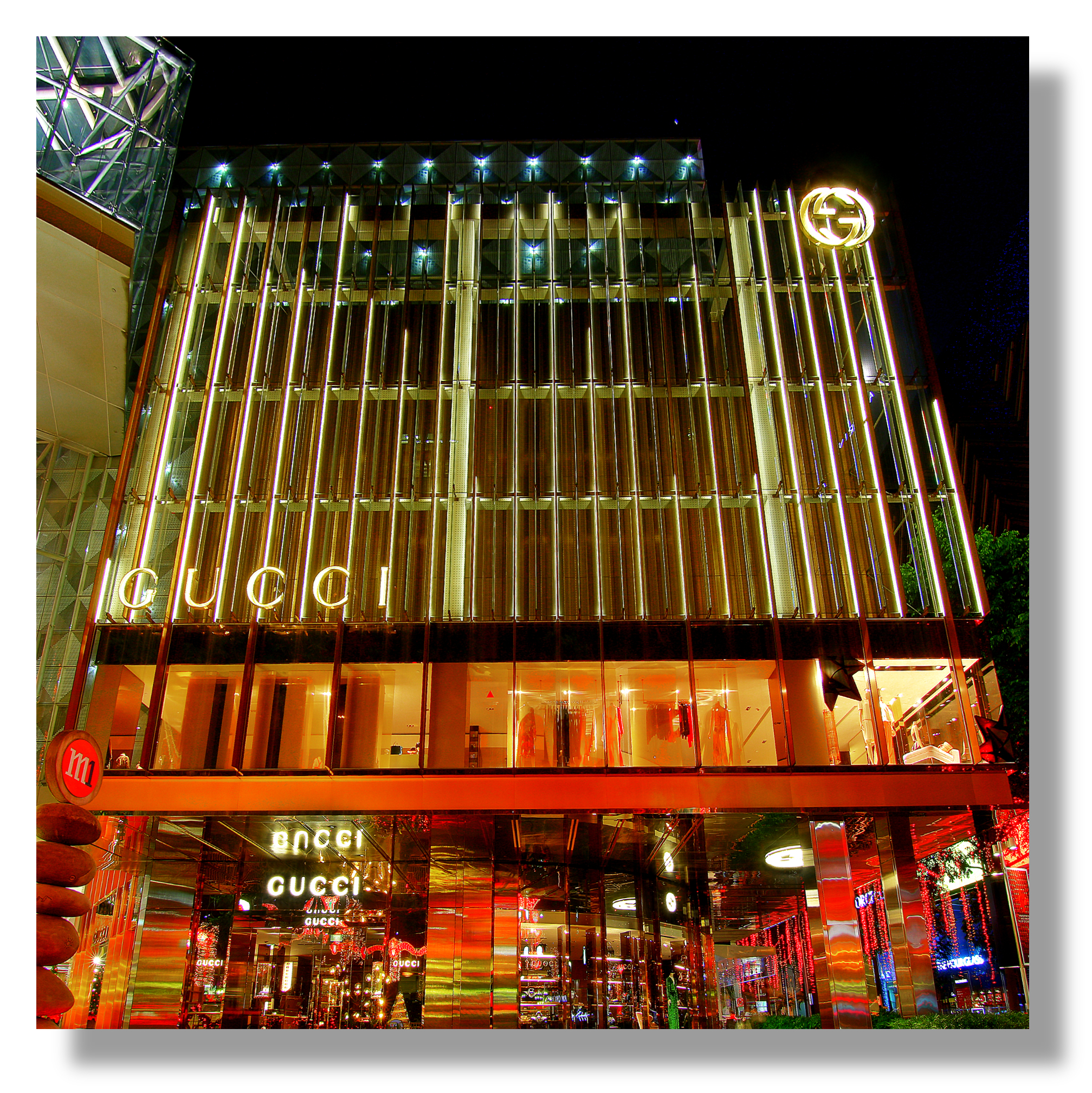 The Gucci Store... where I would rather be